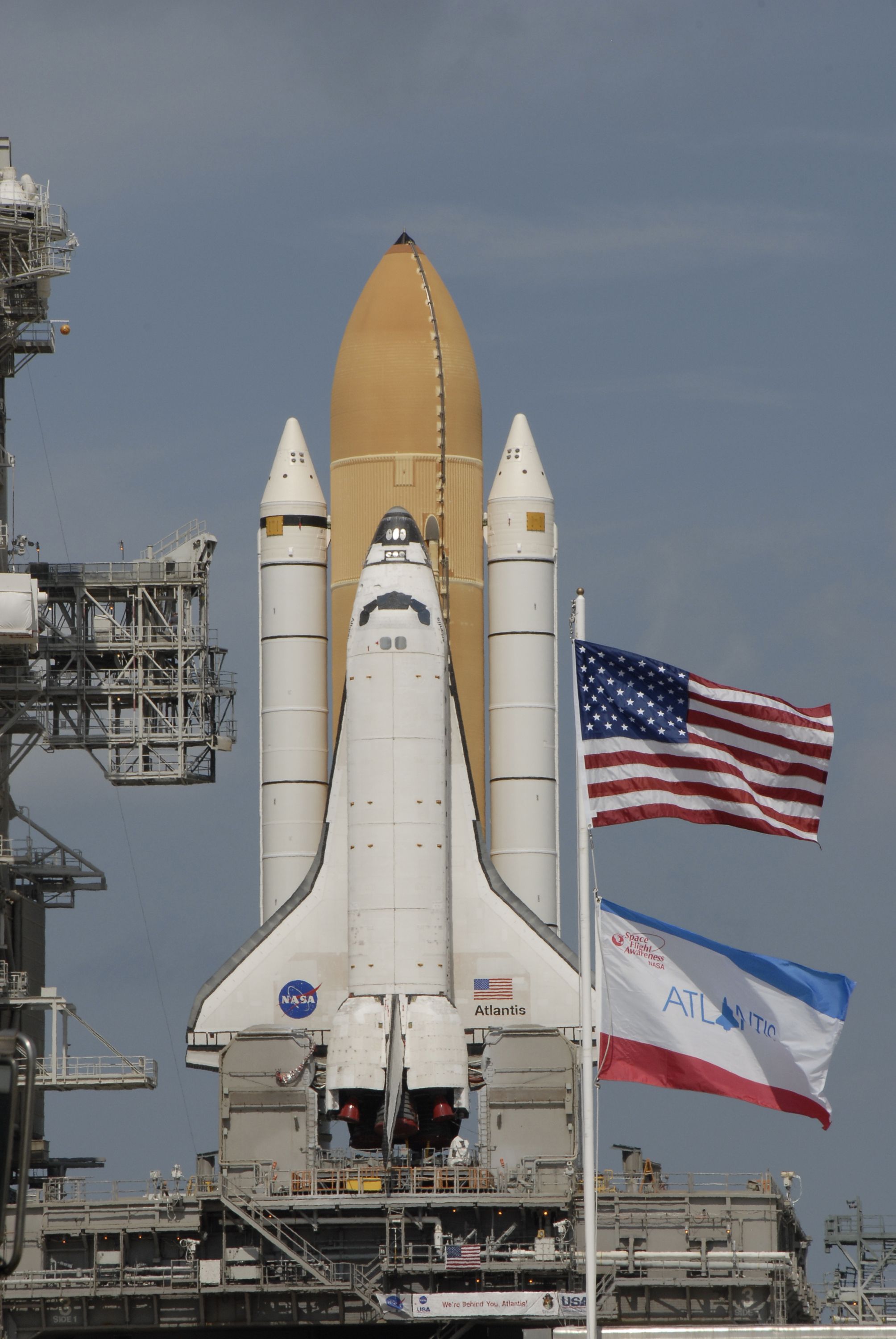 CAPE CANAVERAL, Fla. – At NASA's Kennedy Space Center in Florida, flags flap in the breeze off the Atlantic Ocean at Launch Pad 39A. Space shuttle Atlantis has reached the end of its 3.4-mile journey, known as rollout, from the Vehicle Assembly Building. First motion was at 6:38 a.m. EDT Oct. 14. The rollout took about six hours, and the shuttle was secure or "hard down" on the pad at 1:31 p.m. Liftoff of Atlantis on its STS-129 mission to the International Space Station is targeted for Nov. 12. For information on the STS-129 mission and crew, visit